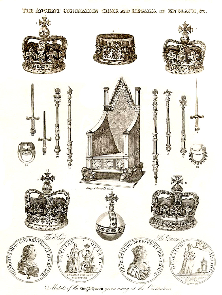 The Ancient Coronation Chair and Regalia of England &c.. Copper engraving. Steel engraving. Size 18 x 24 cm. Another source states that this is Plate IV of A Faithful Account of the Processions and Ceremonies of the Kings and Queens of England; exemplified by that of their most Sacred Majesties King George the Third and Queen Charlotte: with all the other interesting proceedings connected with that magnificent festival. Edited by Richard Thomson. London, 1820. Index of the coronation items 1: Imperial State Crown 2: Mary of Modena's Diadem 3: The State Crown of Mary of Modena 4: One of the four Swords borne before the monarch. 5: Sword of Mercy 6: The Sovereign's Sceptre 7: Sceptre with the Dove 8: Sovereign's Ring 9: King Edward's Chair (the Coronation chair) 10: 11: En:The Queen consort's Sceptre with the Dove 12: The Queen consort's Sceptre with the Cross 13: One of the four Swords borne before the monarch. 14: Queen-Consort's Ring 15: St Edward's Crown 16: Sovereign's Orb 17